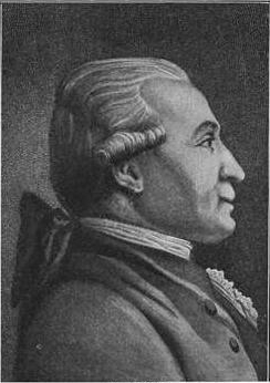 Philosopher Marcus Herz (1747 – 1803), main pupil of Kant